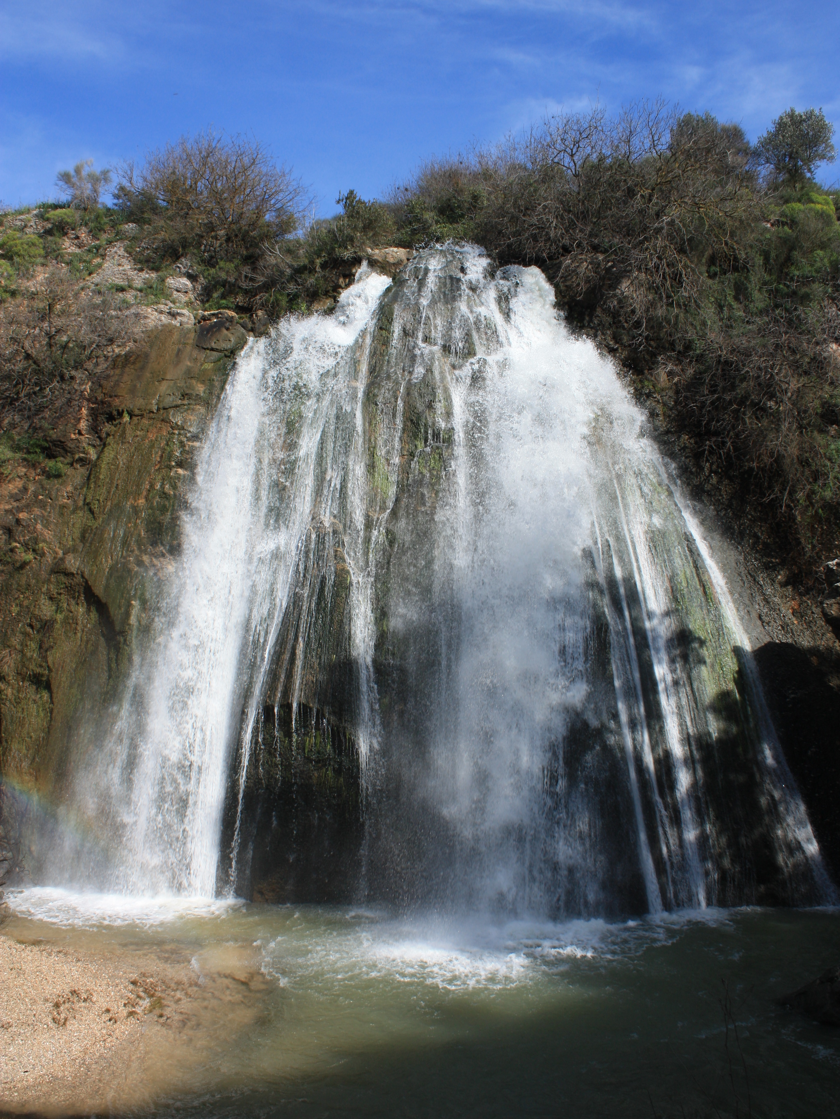 Hatachana fall in Ayun river, northern Israel (sorry for the poor quality)